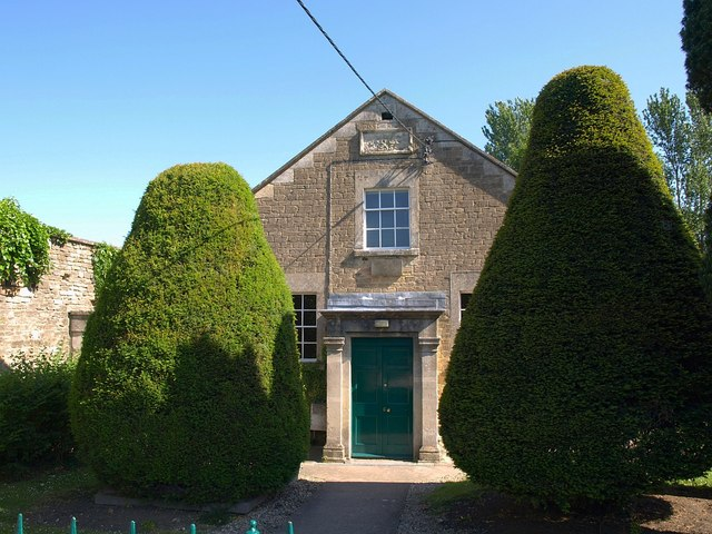 Ebenezer Strict Baptist Chapel, Melksham This charming little chapel, tucked away off Union Street, dates from 1835.